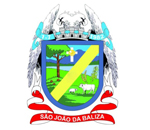 Coat of arm of the city of São João da Baliza, Roraraima, Brazil.